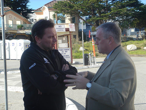 Pat McQuaid (right) chatting with Johan Bruyneel in the 2006 Tour of California